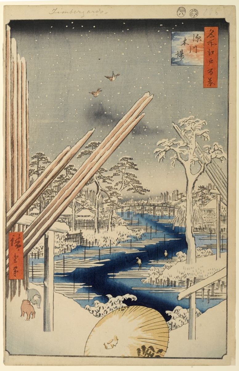 Part of the series One Hundred Famous Views of Edo, no. 106, part 4: Winter.